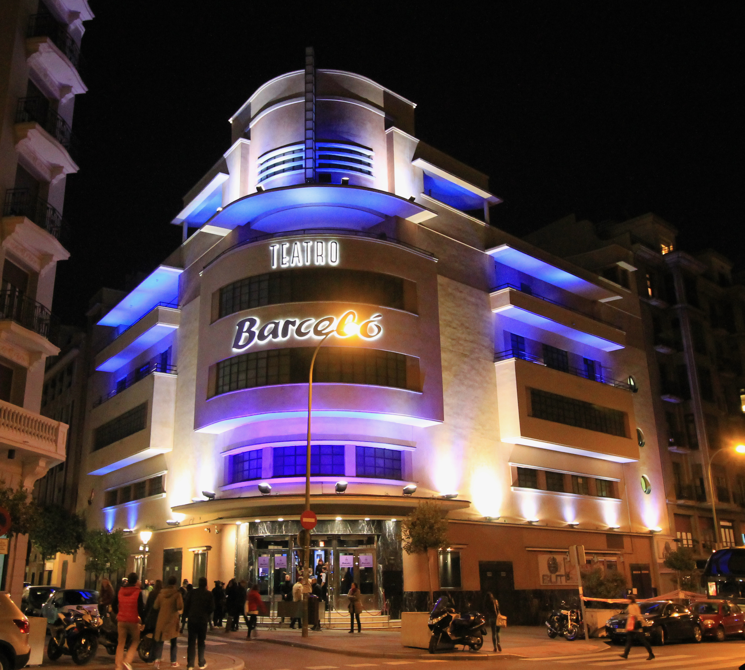 Facade of Teatro Barceló in Madrid (Spain).